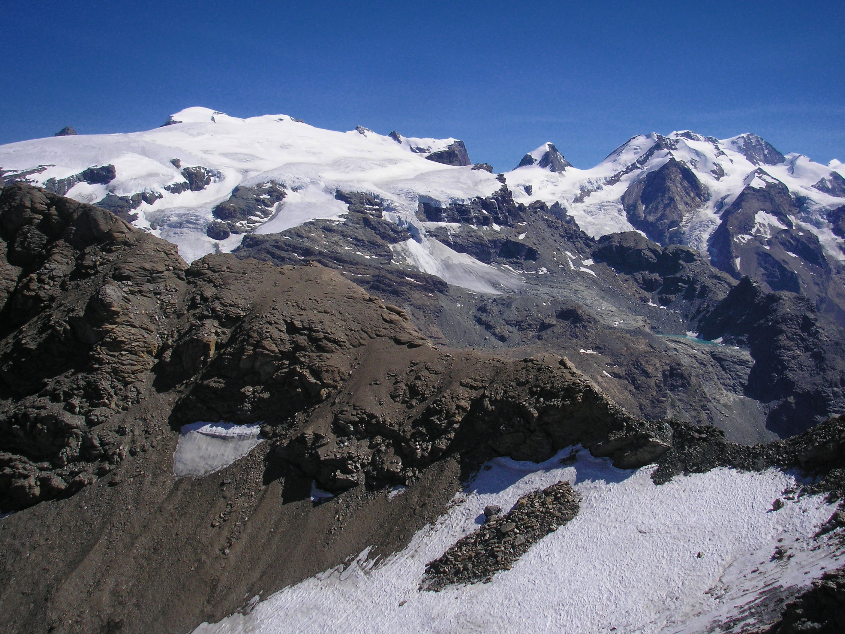 Gobba di Rollin (left) and the Lyskamm group (right) from near the Grand Tournalin